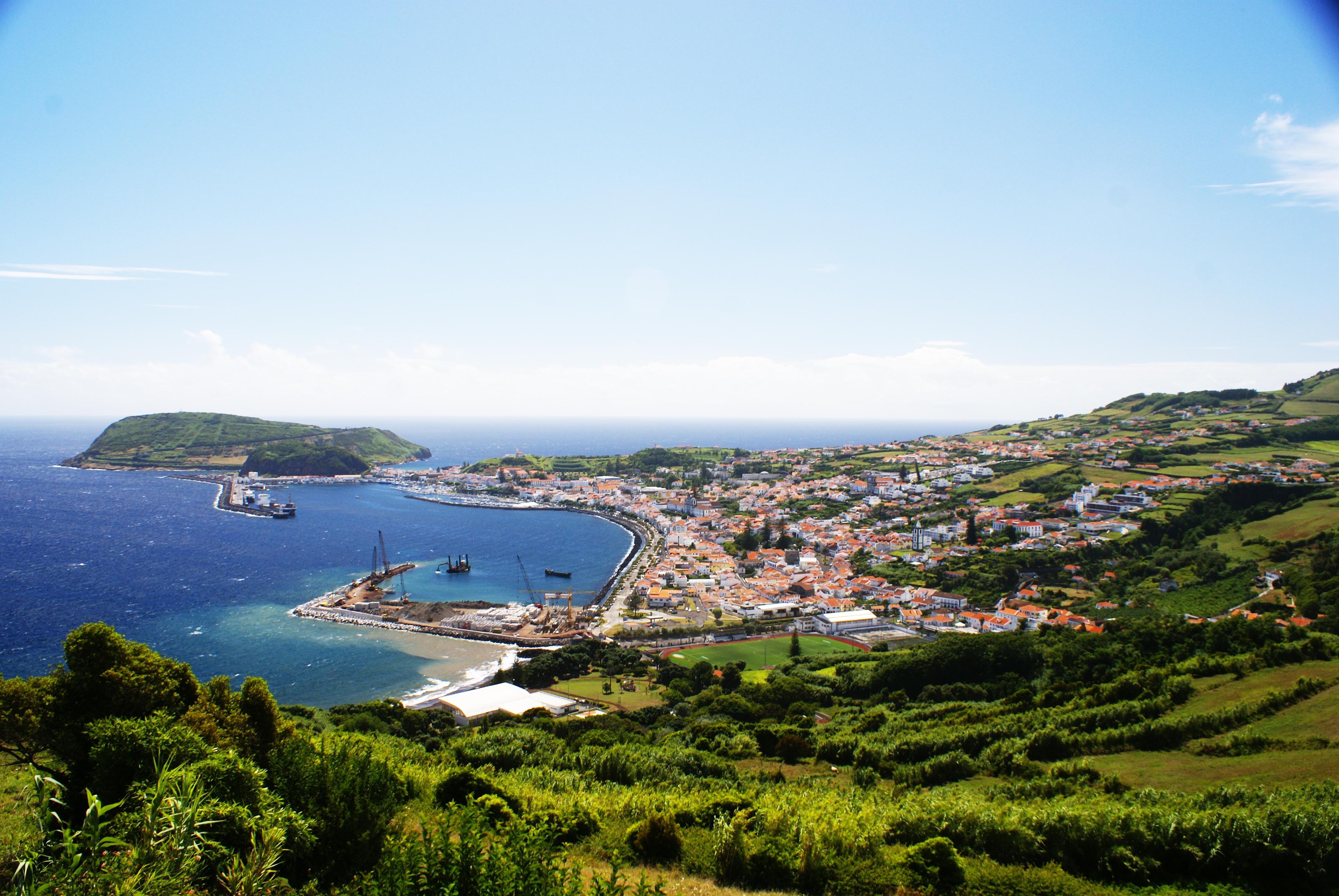 Cidade da Horta, vista parcial do cimo do Miradouro de Nossa Senhora da Conceição, concelho da Horta, ilha do Faial, Açores, Porttugal